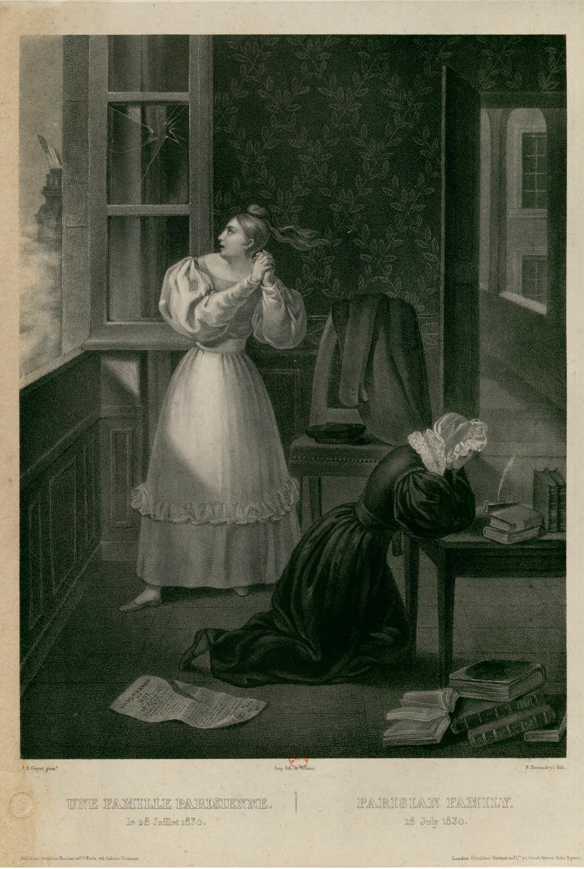 Jean-Baptiste Goyet, Une Famille Parisienne (le 28 Juillet 1830), 1830; lithograph by Narcisse-Edmond-Joseph Desmadryl of the painting by Goyet, part of a series depicting a Paris family during the July Revolution of 1830. Published by Giraldon-Bovinet et C.ie, 26, Galerie Vivienne—London, Giraldon-Bovinet and C°, 44, Greek Street, Soho Square. Source : Bibliothèque nationale de France, département Estampes et photographie, RESERVE QB-370 (87)-FT4.